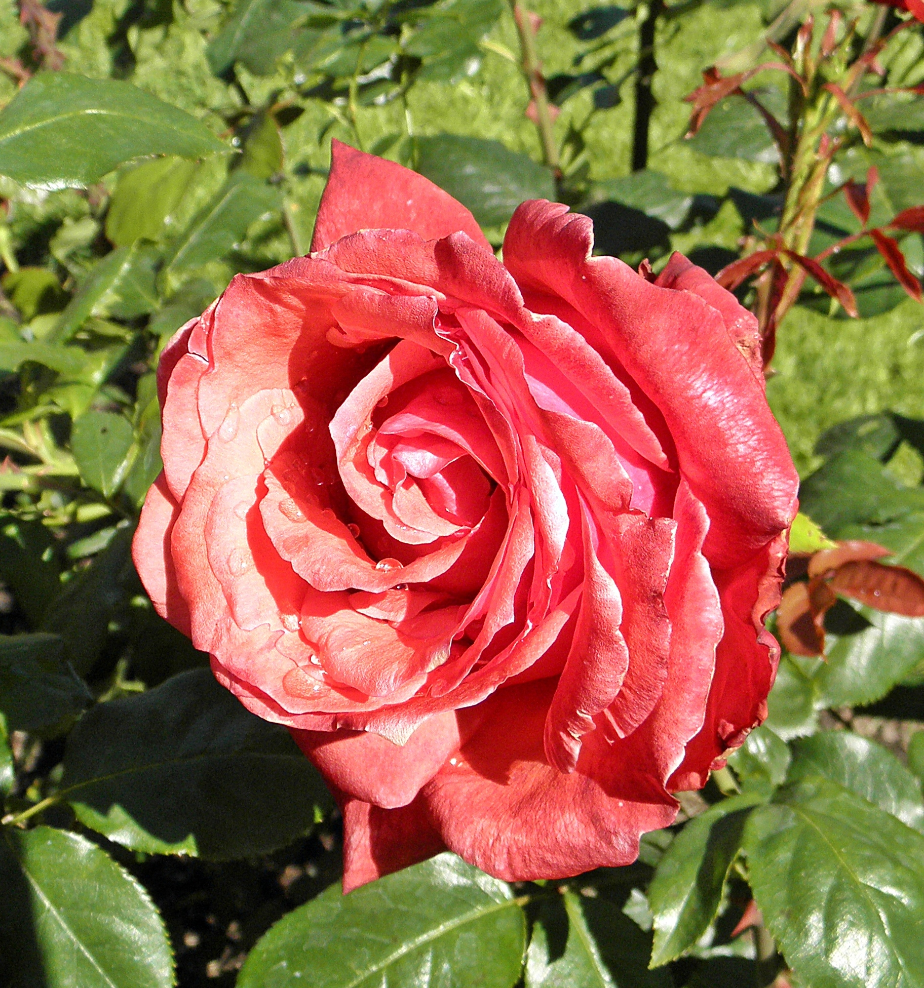 Hybrid Tea Rose 'Simon Bolivar'; Bush Pasture Park Rose Garden, Salem, Oregon. 97301